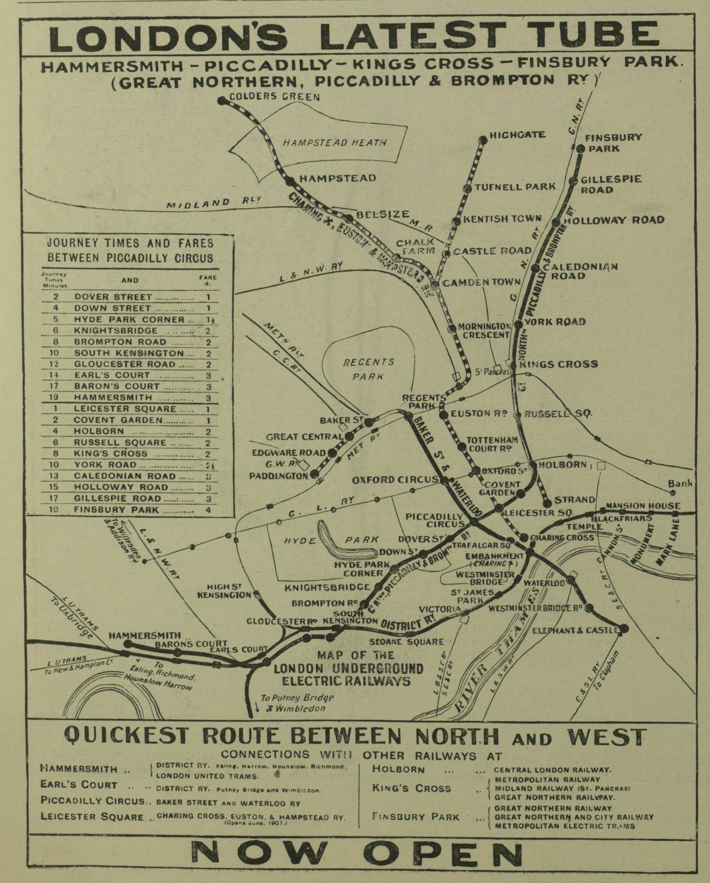 "London's Latest Tube - Hammersmith-Piccadilly-Kings Cross-Finsbury Park (Great Northern, Piccadilly & Brompton Ry)". Advert map issued by the Underground Electric Railways Company of London (UERL) following the opening of the the Great Northern, Piccadilly and Brompton Railway (GNP&BR, now the Piccadilly line) on 15 December 1906. The map shows the lines operated and under construction by the UERL drawn with thick lines: the GNP&BR, the Baker Street and Waterloo Railway (B&SWR, now the Bakerloo line) and the Charing Cross, Euston and Hampstead Railway (CCE&HR, now part of the Northern line) and the central section of the District Railway (now the District line) with the stations named. The Aldwych branch of the GNP&BR, the entire CCE&HR and the extension of the BS&WR from Baker Street to Paddington were all under construction or approved for construction and are shown as dashed lines. They all opened in 1907, except for B&SWR from Edgware Road to Paddington which opened in 1913. Other Underground lines (Central London Railway, City and South London Railway, Metropolitan Railway) and some of the main line services are shown drawn as thin lines.